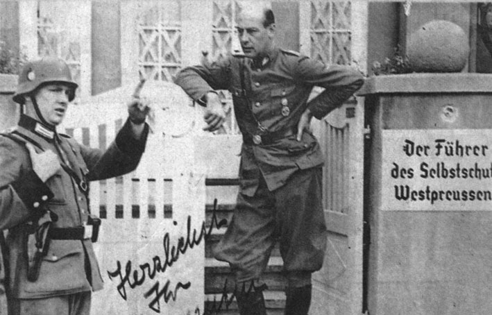 SS-Oberführer Ludolf von Alvensleben – leader of so-called "Selbstschutz Westpreussen" (paramilitary formation composed of members of the German minority in pre-war Poland which was created by Nazi-German authorities at occupied Polish Pomerania at September 1939). This photo was taken in front of the Alvensleben’s HQ at 8 Wyspiańskiego Street in Bydgoszcz. During the second world war this photo was placed in so-called "Album of fame of Selbstschutz" (known also as "Alvensleben Album"). After the end of war this album was found and taken over by the Polish authorities. It is now in the archives of the Commission for the Investigation of Nazi Crimes in Poland.